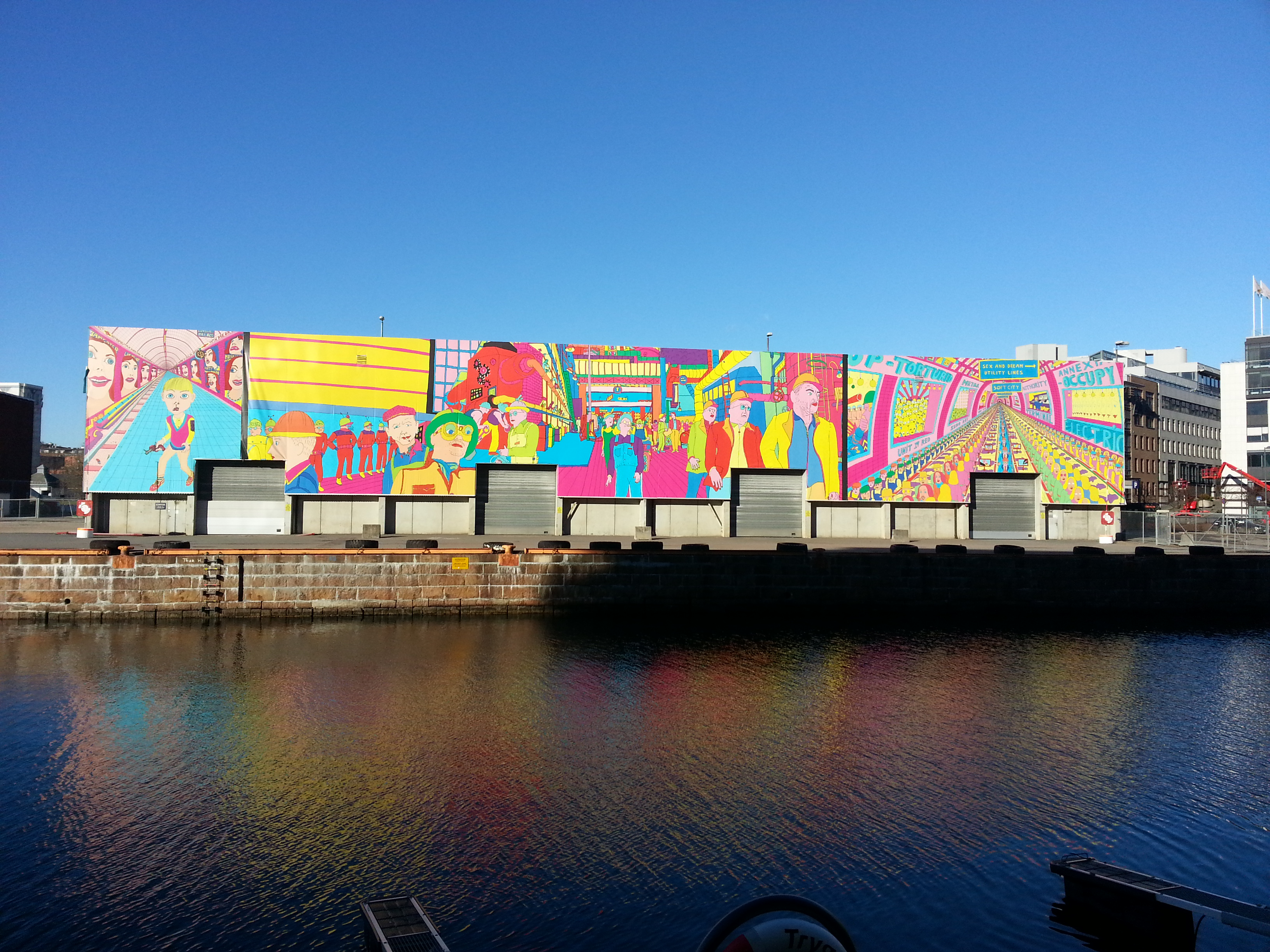 Pushwagner (Terje Brofoss) decorated storage building at Tjuvholmen in Oslo, Norway